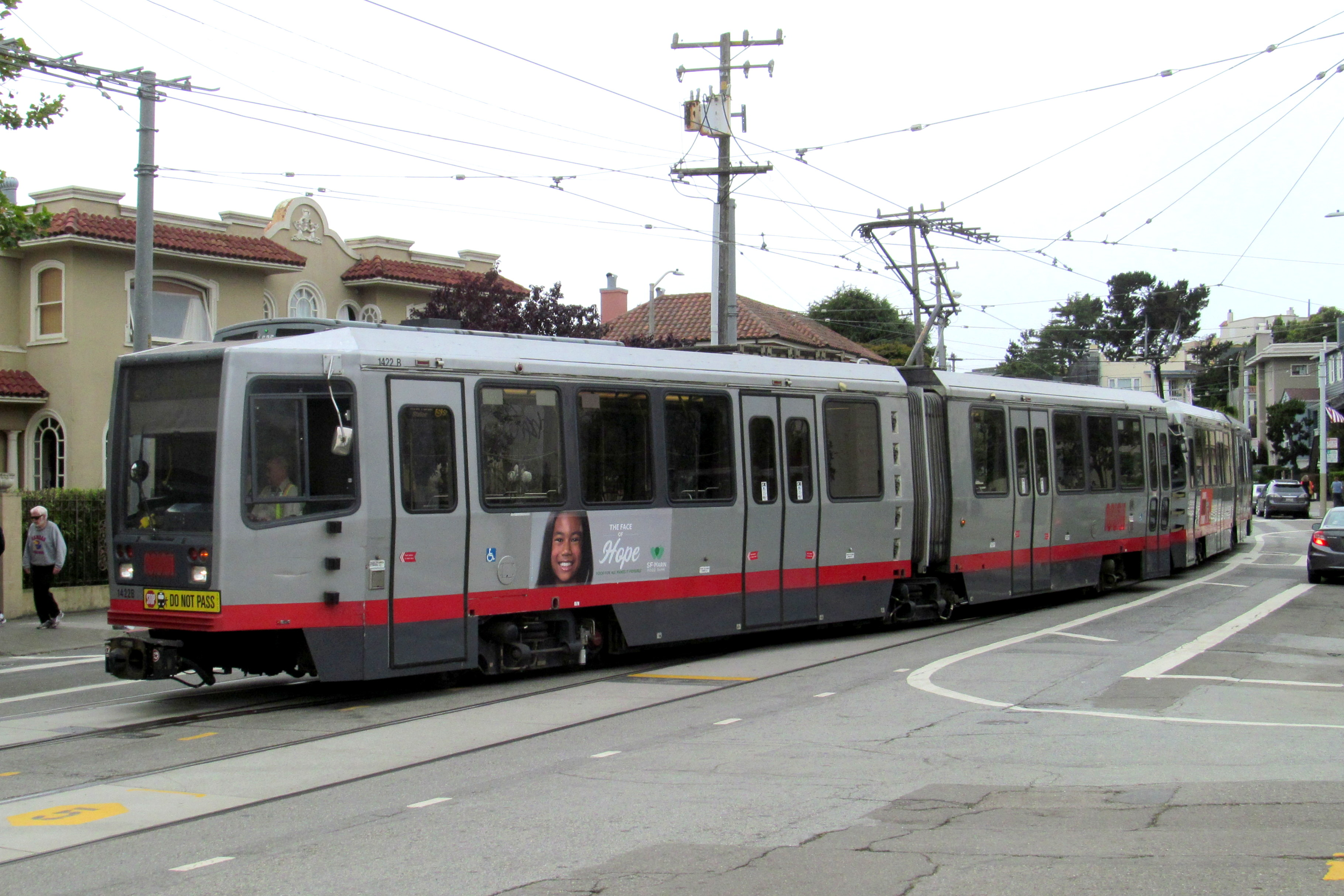 An S Shuttle train crossing over on Ulloa Street near West Portal station in June 2017